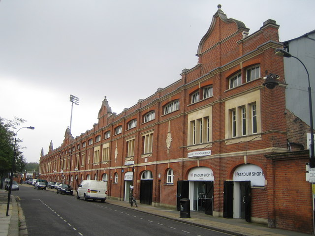 Fulham Football Club This is the Stevenage Road facade of the Johnny Haynes stand, and dates from 1896 when the club, which was formed in 1879, first played here.